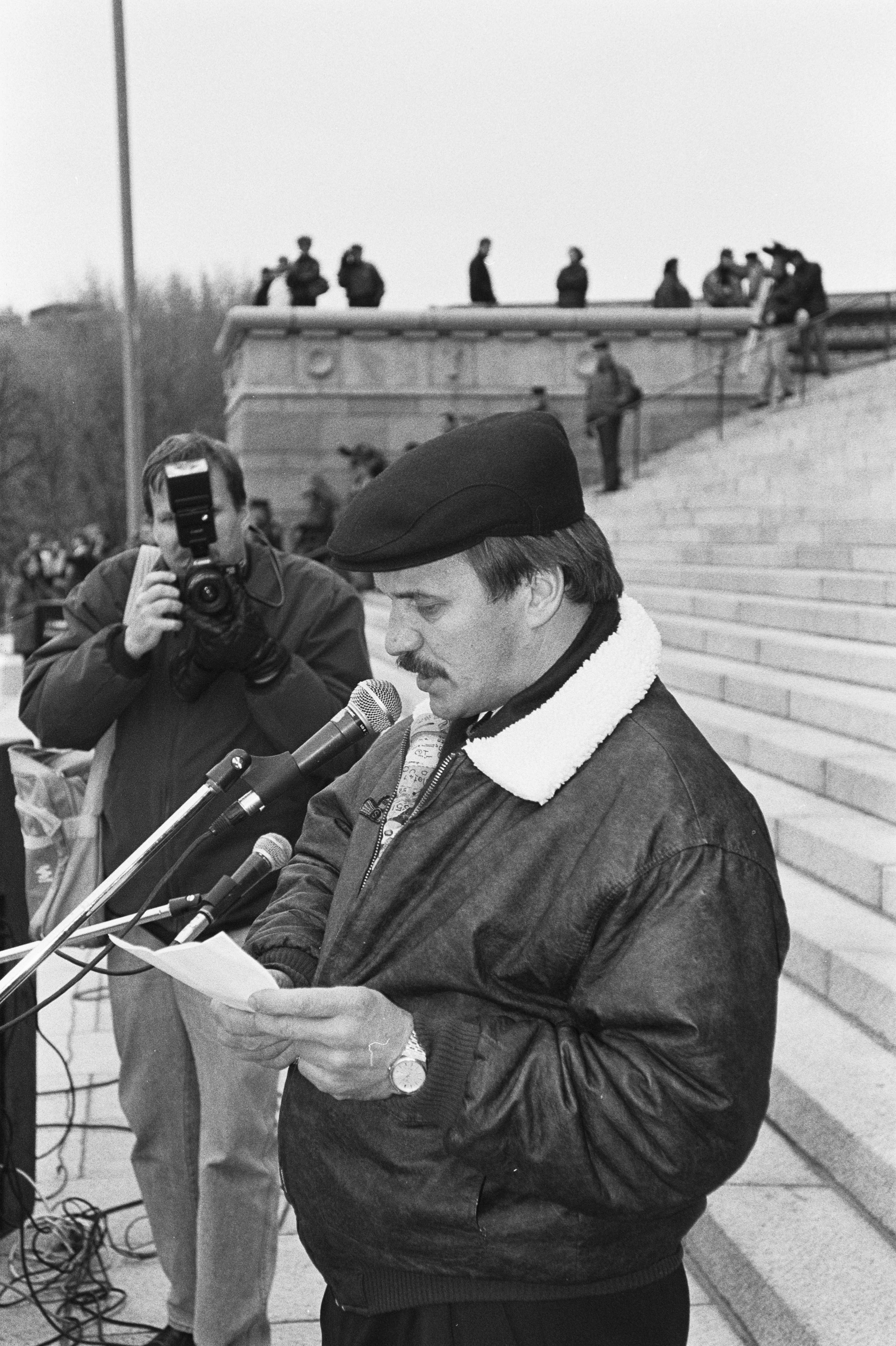 Photograph of the Finnish politician Mikko Immonen (1950–) speaking on the stairs of the Parliament building in Helsinki. At that time, Immonen led the national organization for the unemployed, and that day, there was a protest of the unemployed.